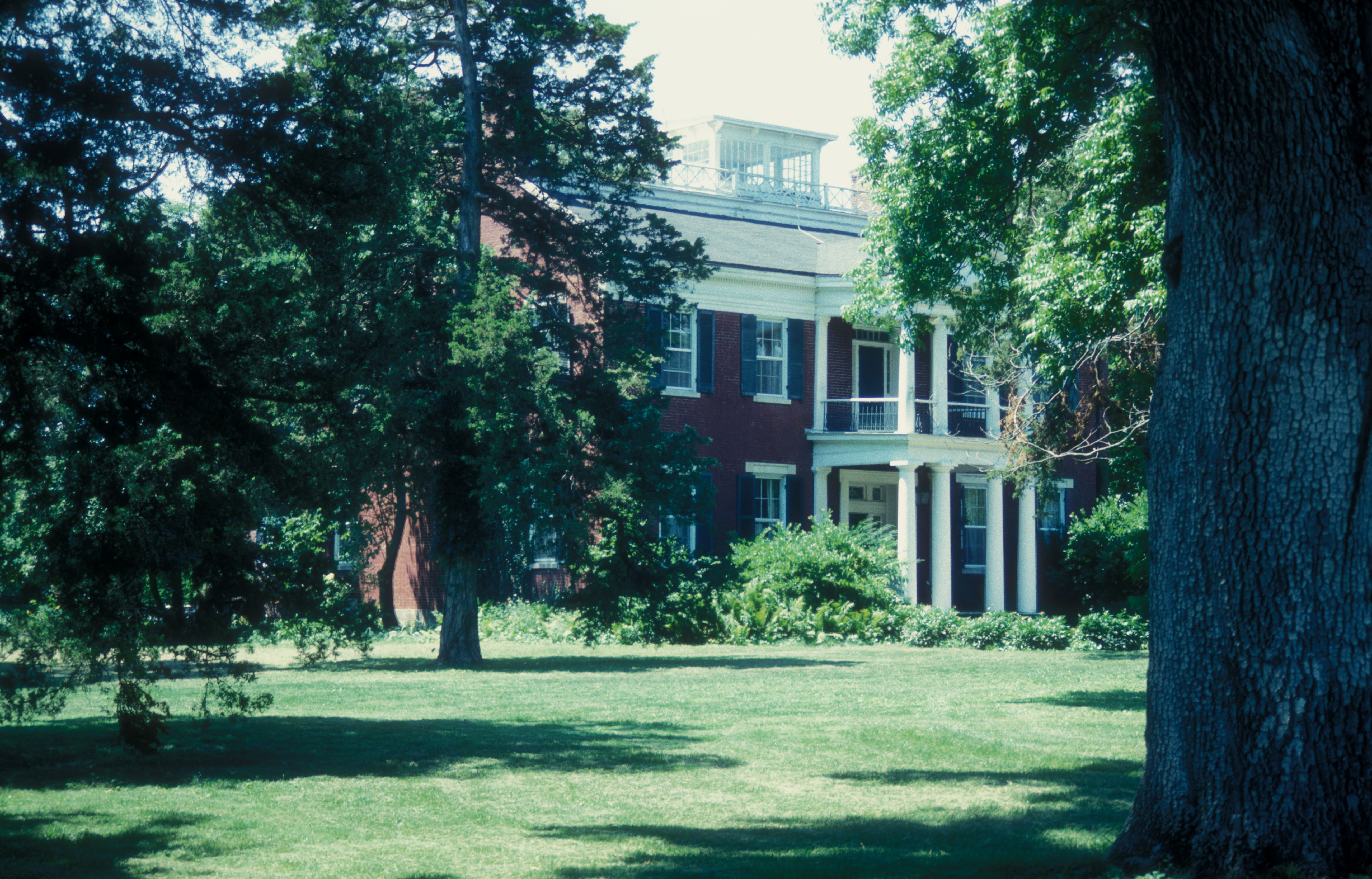 PRAIRIE PARK - HOME OF WILLIAM SAPPINGTON, JOHN SAPPINGTON'S SON, JOHN SAPPINGTON PERFECTED THE USE OF QUININE IN THE TREATMENT OF MALARIA